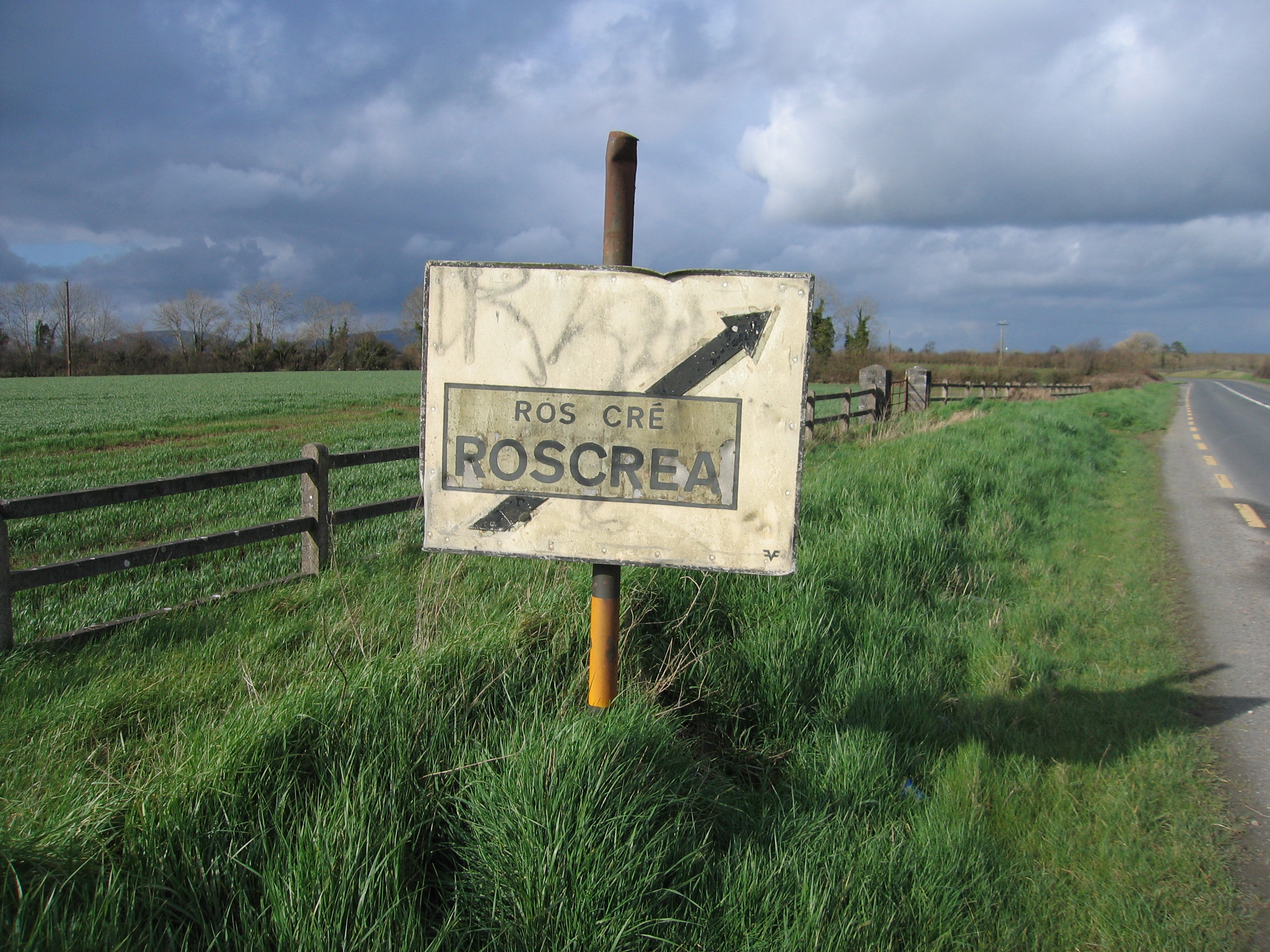 Sign for Roscrea on the N62